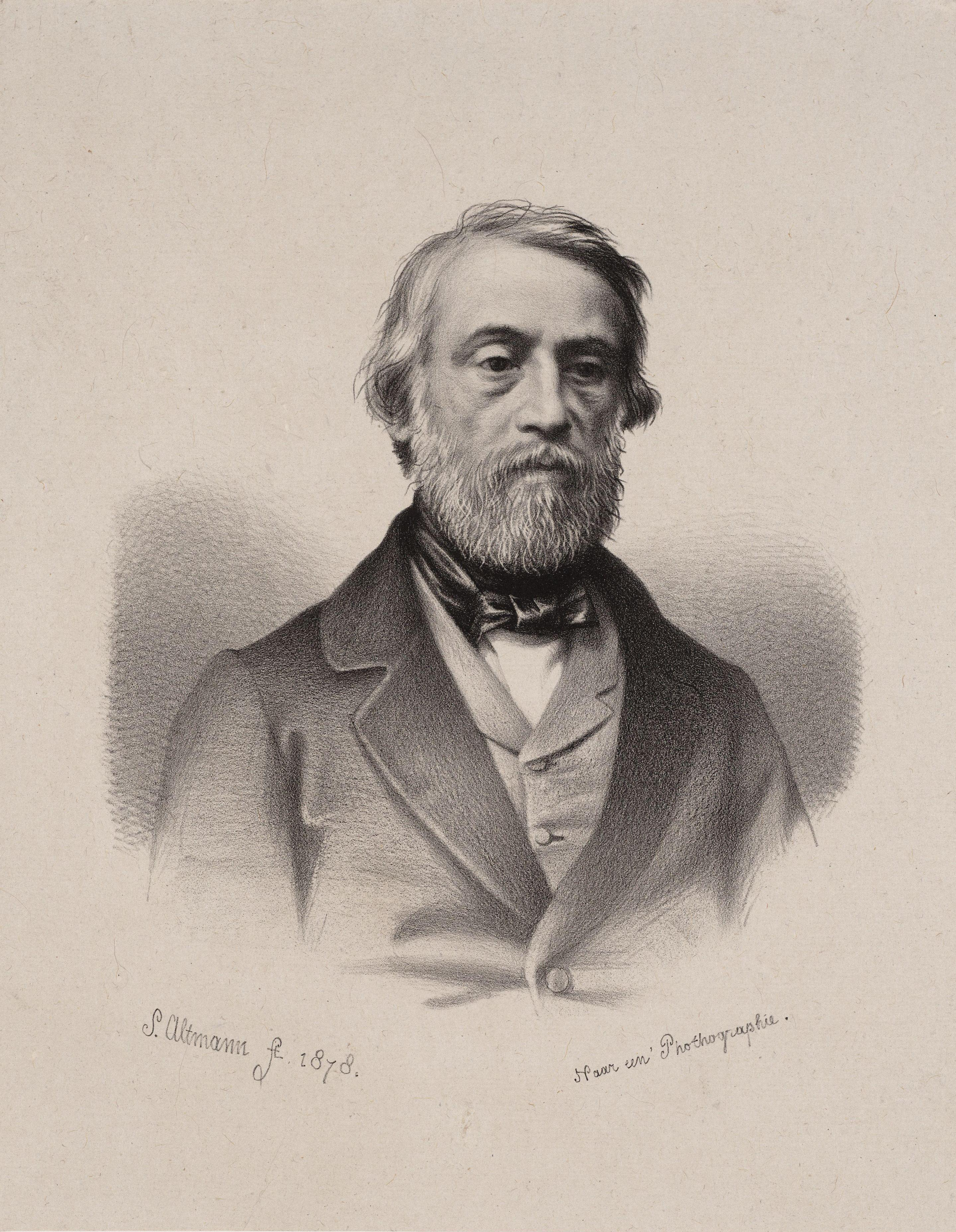 Augustus Pieter Lopez Suasso